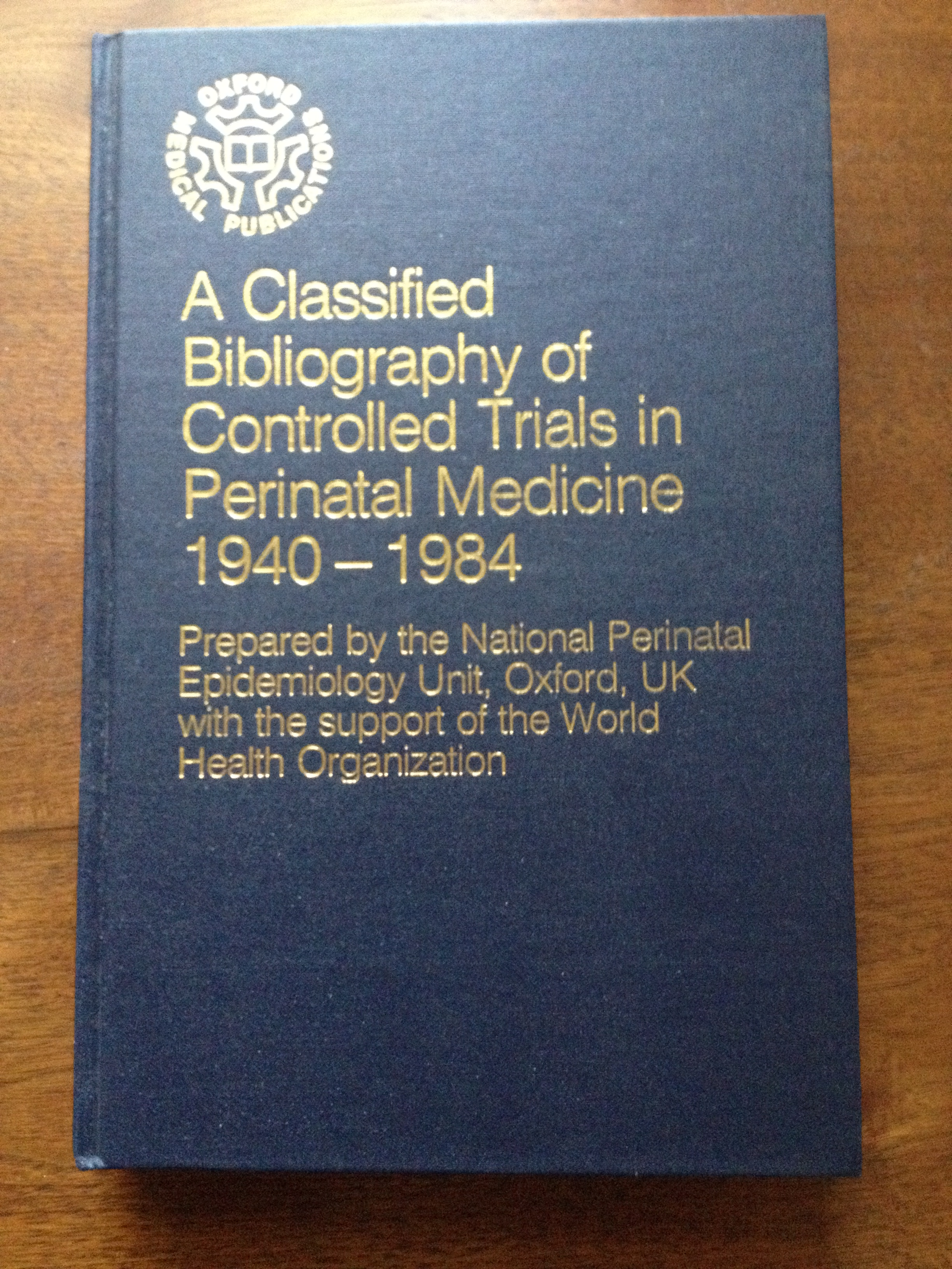 This is a photo of the book: National Perinatal Epidemiology Unit (1986). Classified Bibliography of Controlled Trials in Perinatal Medicine 1940–1984. Oxford: Oxford Medical Publications.